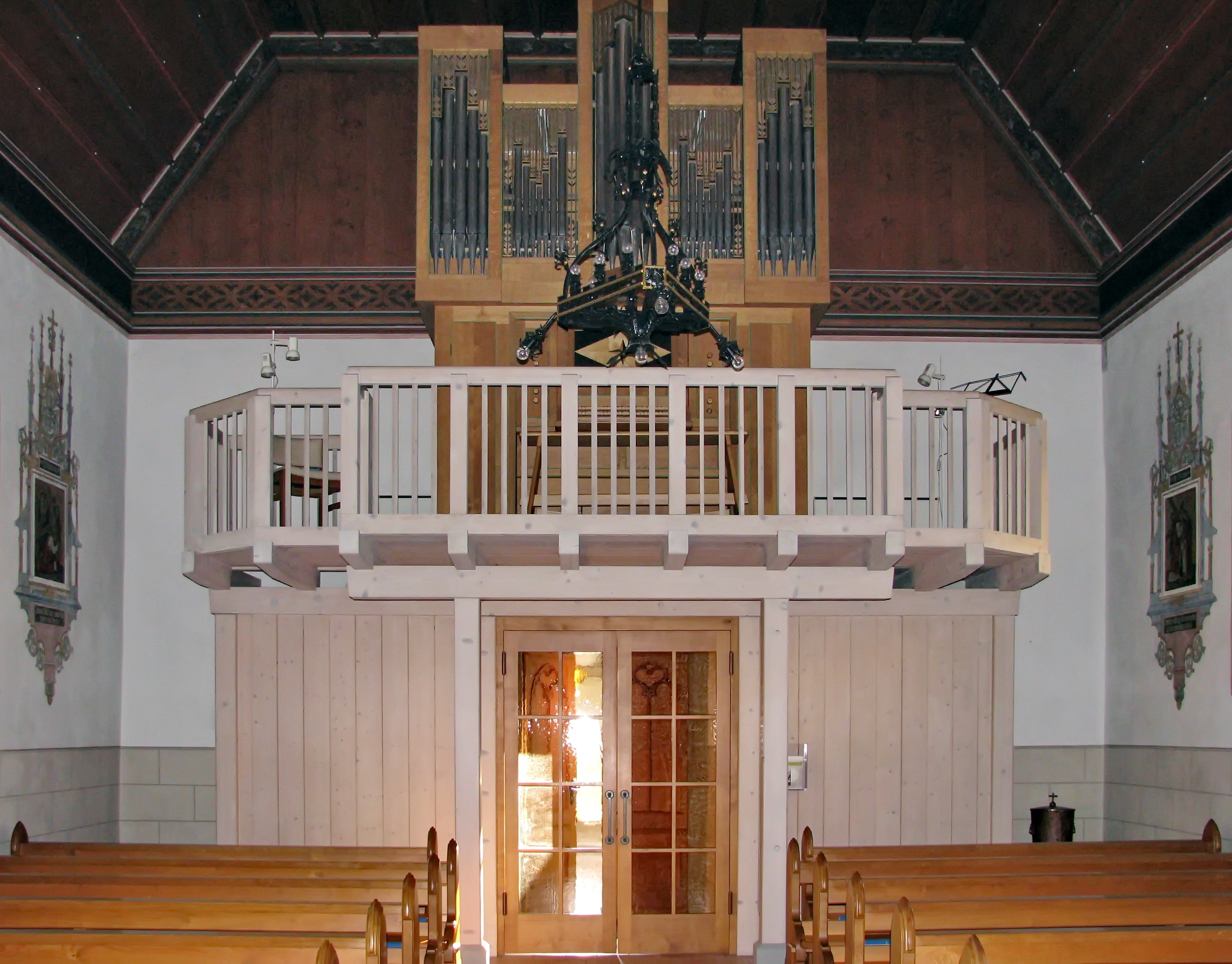 Kapelle St. Ursula in Kempraten respectively Rapperswil (Switzerland)